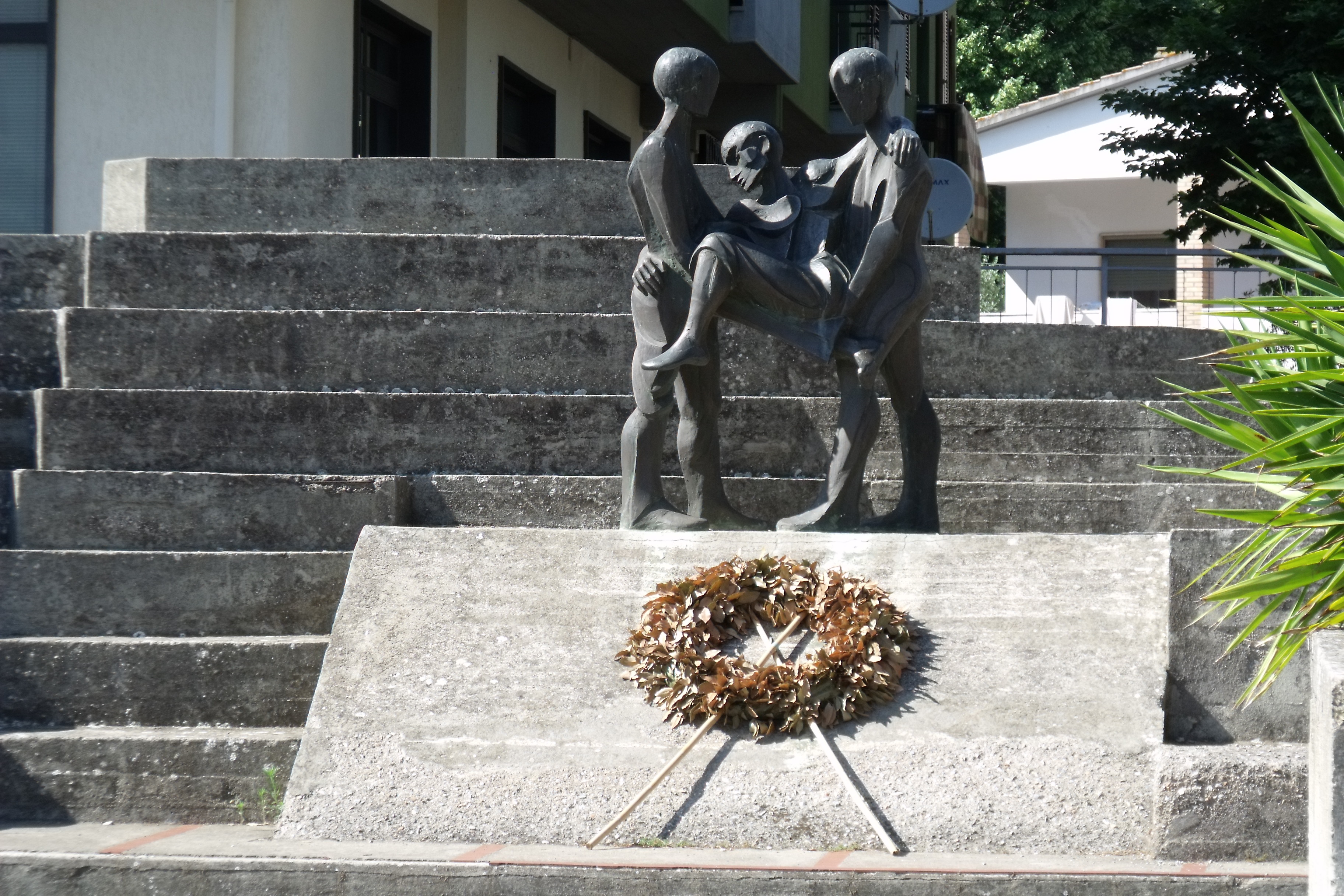 Miners Monunment (Monumento al minatore) from Vittorio Basaglia (1936–2005) in Ribolla, hamlet of Roccastrada, Province of Grosseto, Maremma Area, Tuscany, Italy